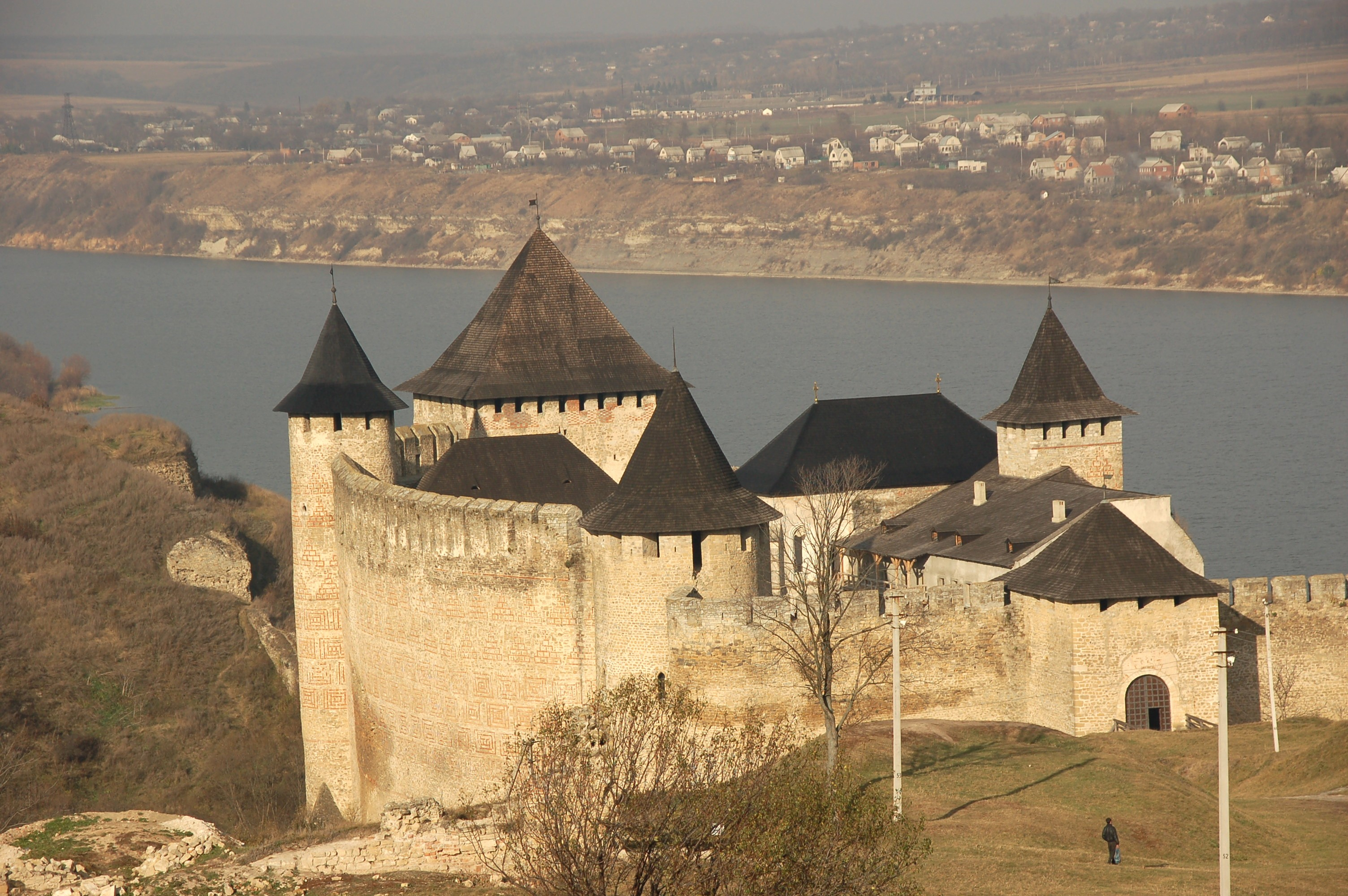 Overview of the Khotyn fortress, the Dniester river can be seen behind